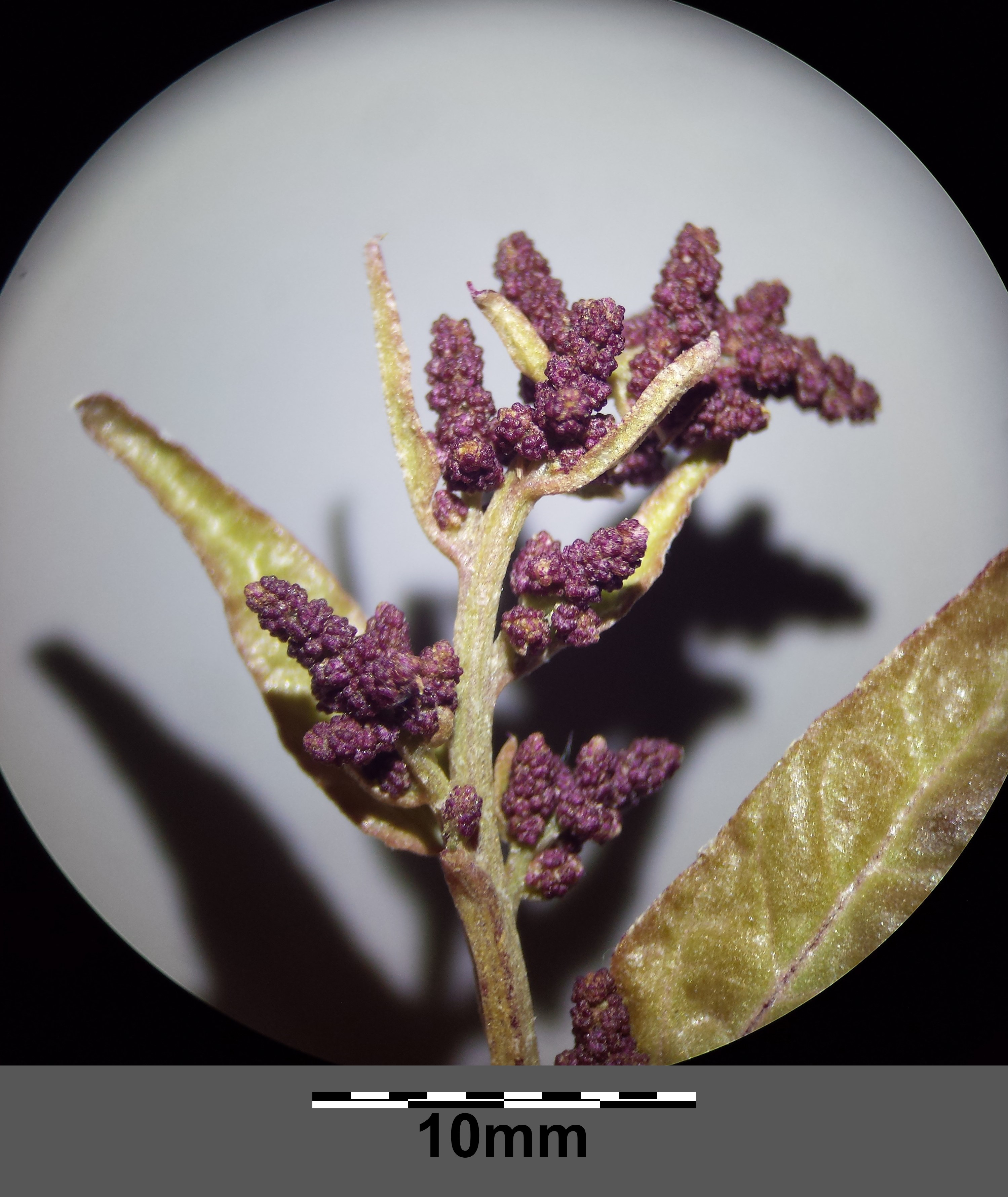 Inflorescence (with predominantly ♂ flowers) Taxonym: Atriplex hortensis ss Fischer et al. EfÖLS 2008 ISBN 978-3-85474-187-9 Location: Groß-Jedlersdorf cemetery, Vienna-Floridsdorf - ca. 160 m a.s.l. Habitat: idle grave